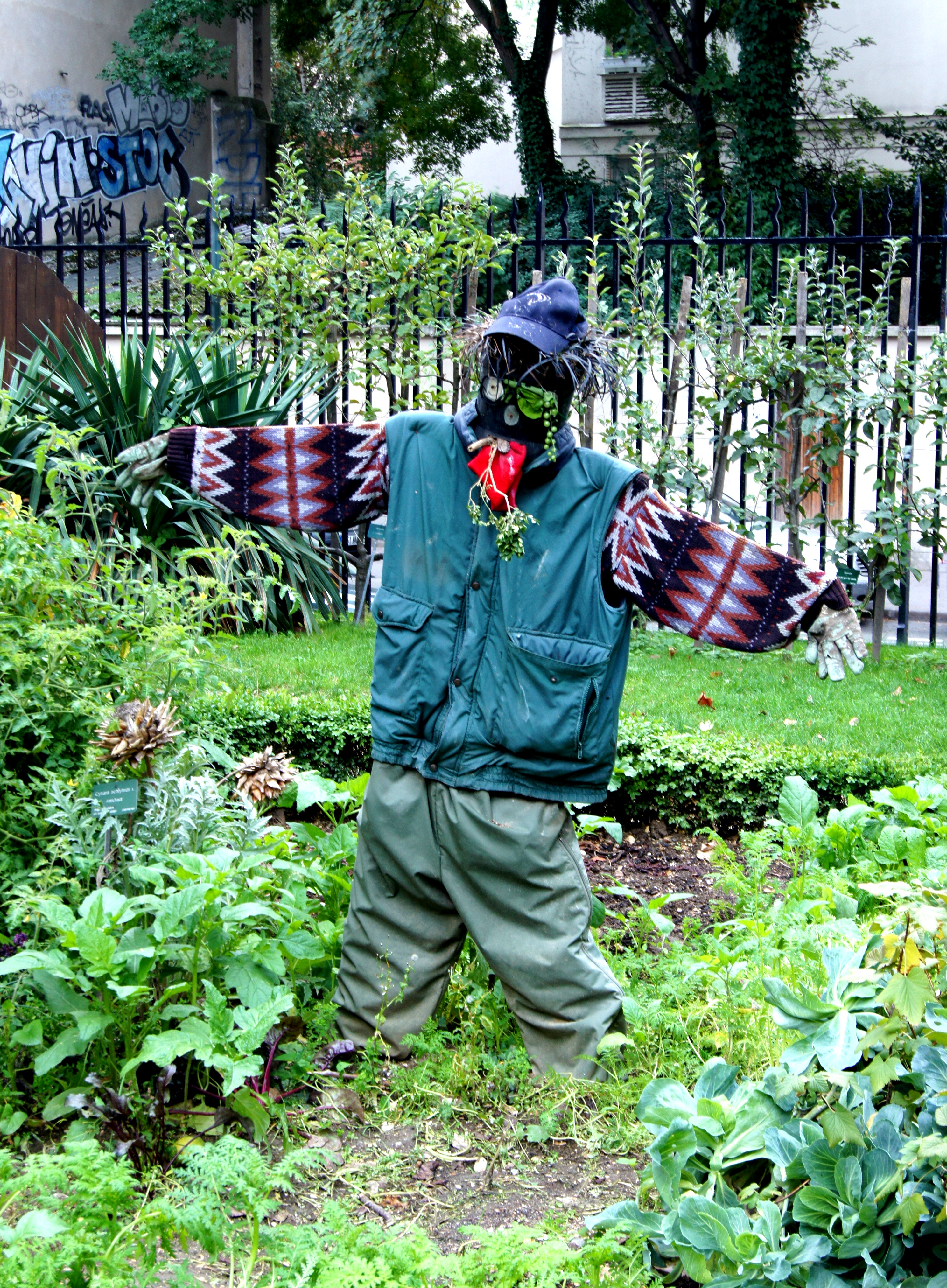 An urban scarecrow, vegetable garden in the Jardin des plantes in Paris, France.